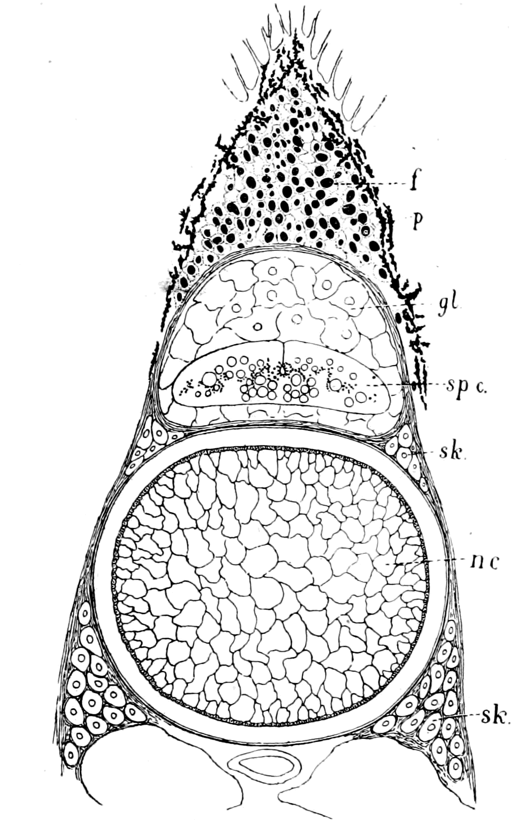 Fig. 73.—Section through the Notochord (nc.), the Spinal Canal and the Fat-column (f.), of Ammocœtes, drawn from an Osmic Preparation. sp. c., spinal cord; gl., glandular tissue filling the spinal canal; sk., Gegenbaur's skeletogenous cells; p., pigment. (All references in this work to Ammocœtes or Petromyzon appear to refer to the European Brook Lamprey, now called Lampetra planeri.)